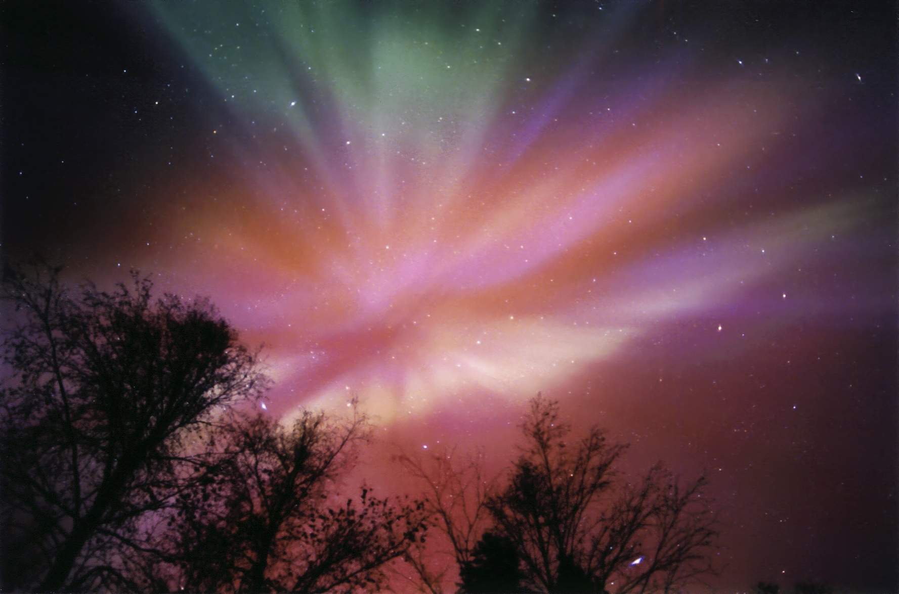 Purple polar aurora seen from Alaska